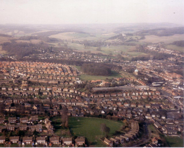 Desborough Castle, High Wycombe from the air The clump of trees in the centre of the picture cover the site of Desborough Castle, an ancient hill fort on the outskirts of High Wycombe. The open space in the foreground is between Deeds Grove and Carrington Road. The picture was taken from a Piper Cherokee Arrow on approach to Wycombe Air Park - see picture of the airfield in square SU8291.